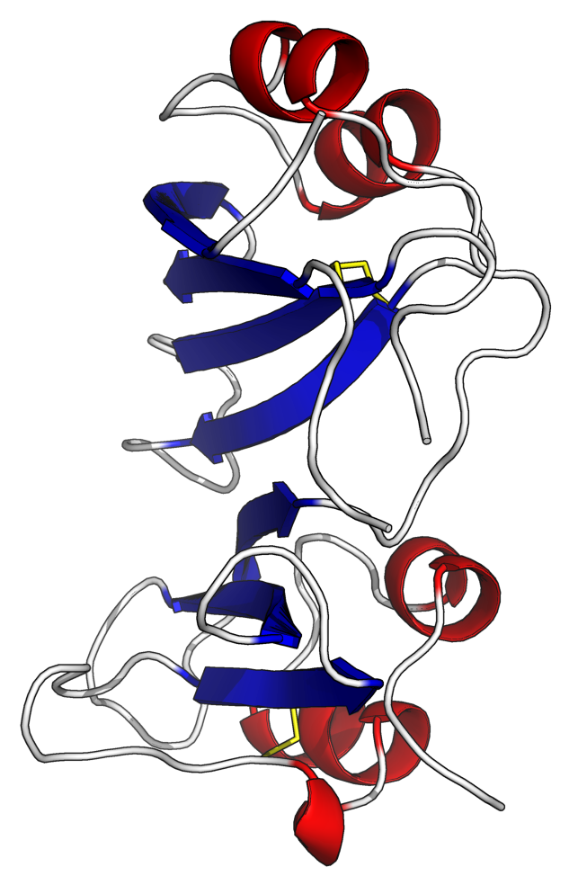 Beta-lactamase Inhibitory Protein based on 3c7v